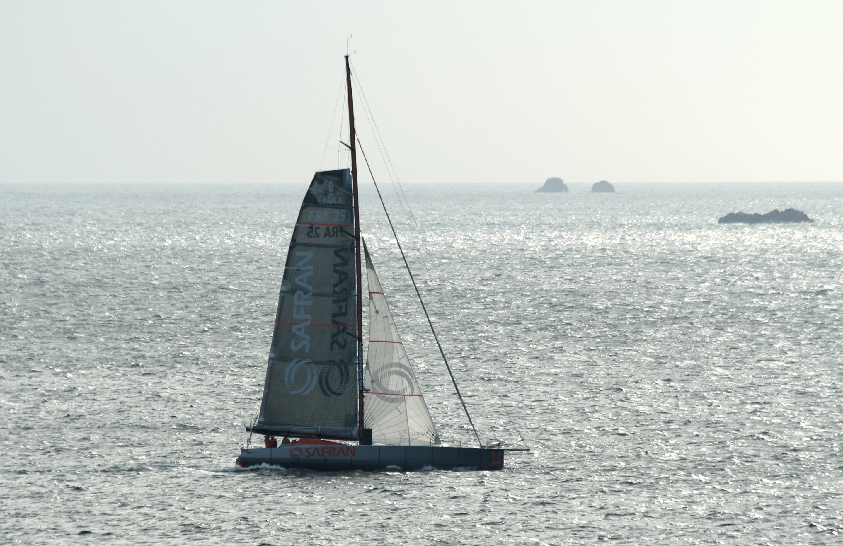 Safran open 60' sailboat near Saint-Mathieu, Plougonvelin, France, entering the Chenal du Four. In the background, one can see the Bossmen rocks.